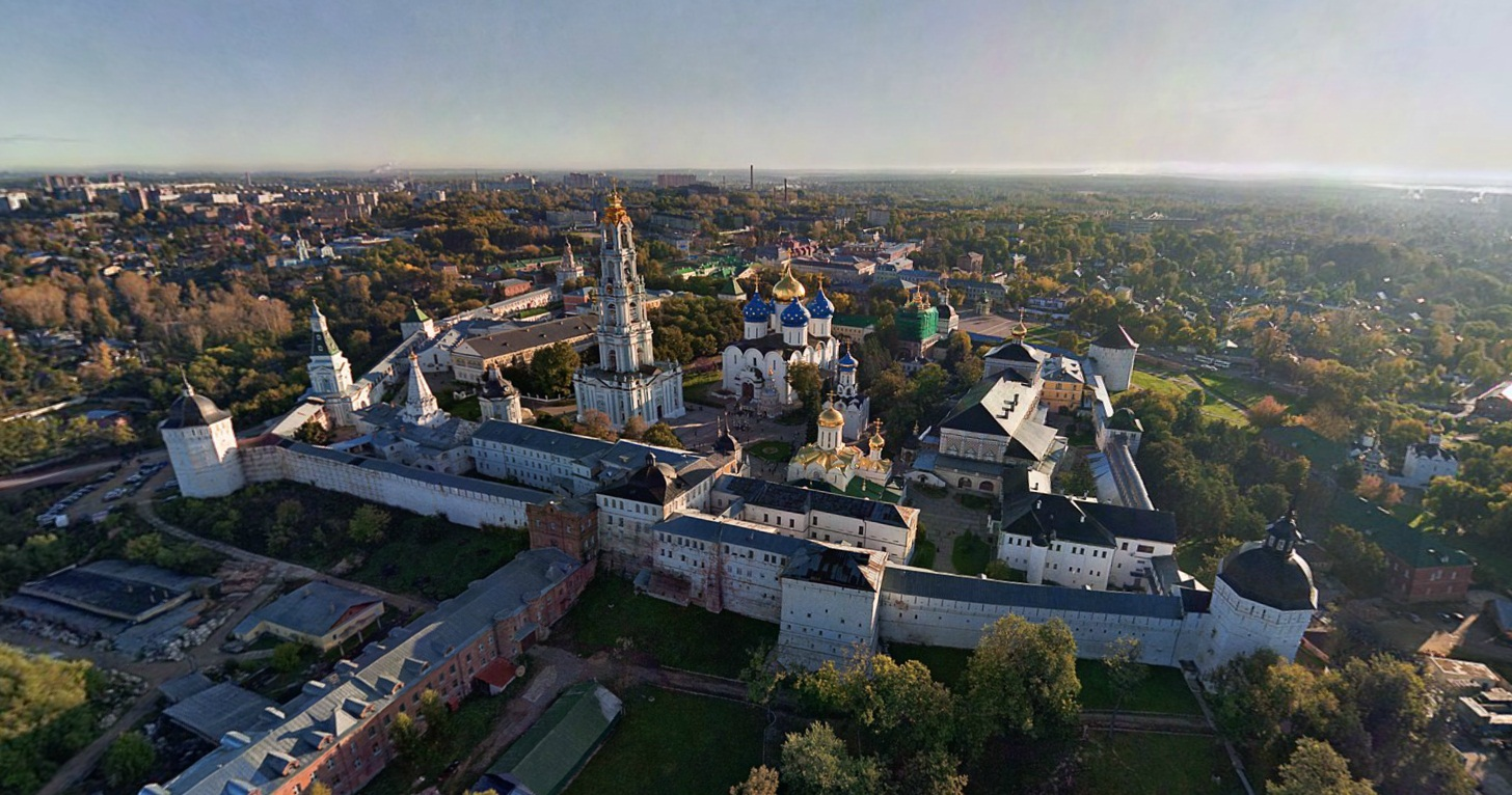 Сергиев Посад с высоты птичьего полета